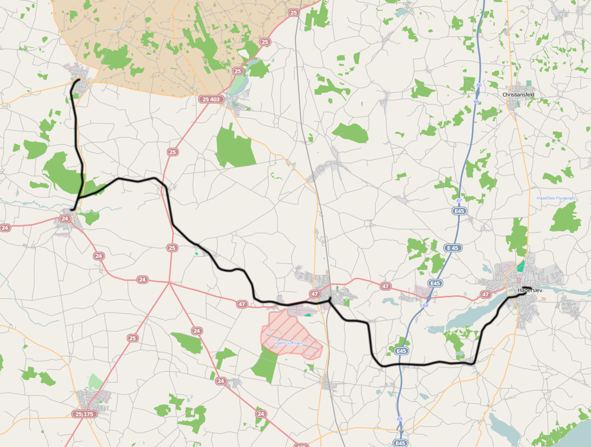 Railway line Haderslev - Rødding